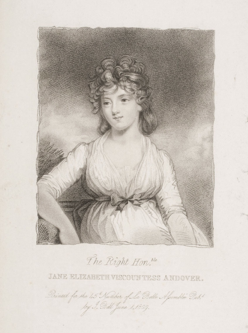 Jane Elizabeth (Coke), Viscountess Andover